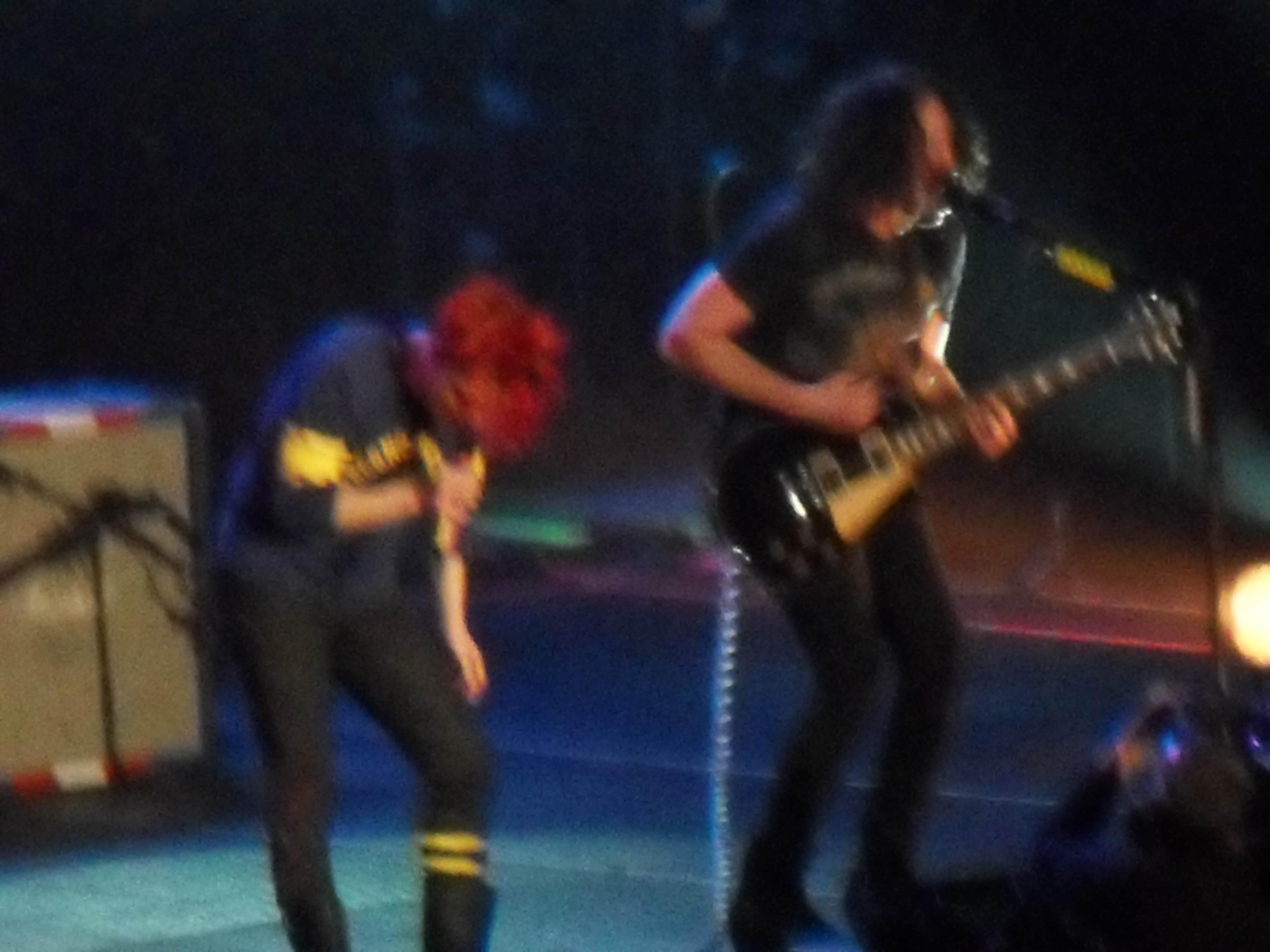 Gerard Way and Ray Toro of My Chemical Romance at the LG Arena in Birmingham in February 2011 as part of The World Contamination Tour.